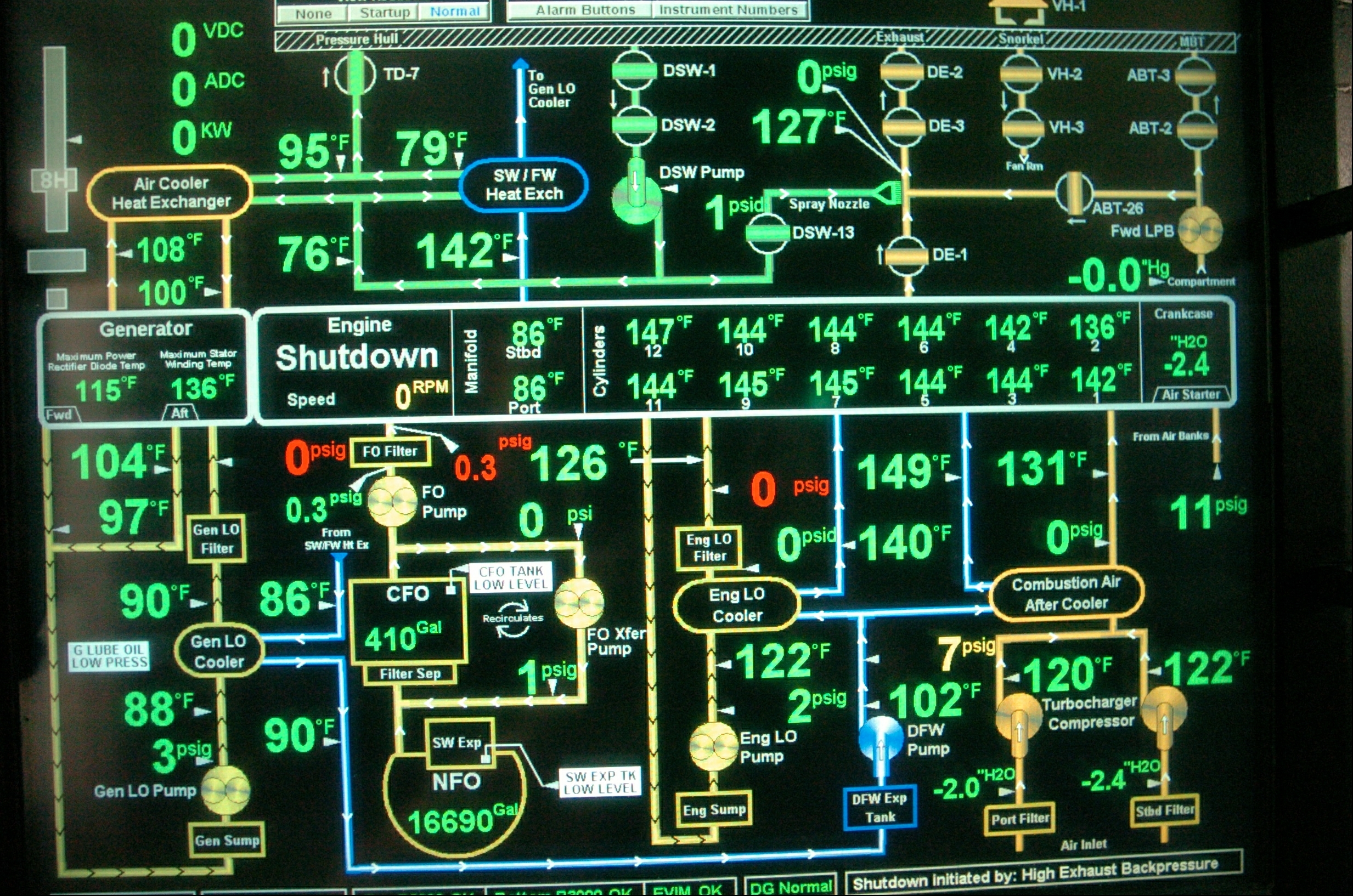 Atlantic Ocean (Aug. 22, 2004) – One of PCU Virginia's (SSN 774) new components is its diesel generator, a Caterpillar 3512B V-12 Twin-turbo charged engine. All of the engine's readings are visible on a liquid crystal display (LCD) panel. Virginia is the Navy’s only major combatant ready to join the fleet that was designed with the post-Cold War security environment in mind and embodies the war fighting and operational capabilities required to dominate the littorals while maintaining undersea dominance in the open ocean. U.S. Navy photo by Journalist 1st Class James Pinsky (RELEASED)